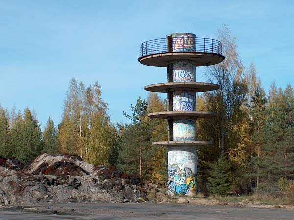 Keimola Motor Stadium control tower in Vantaa, Finland